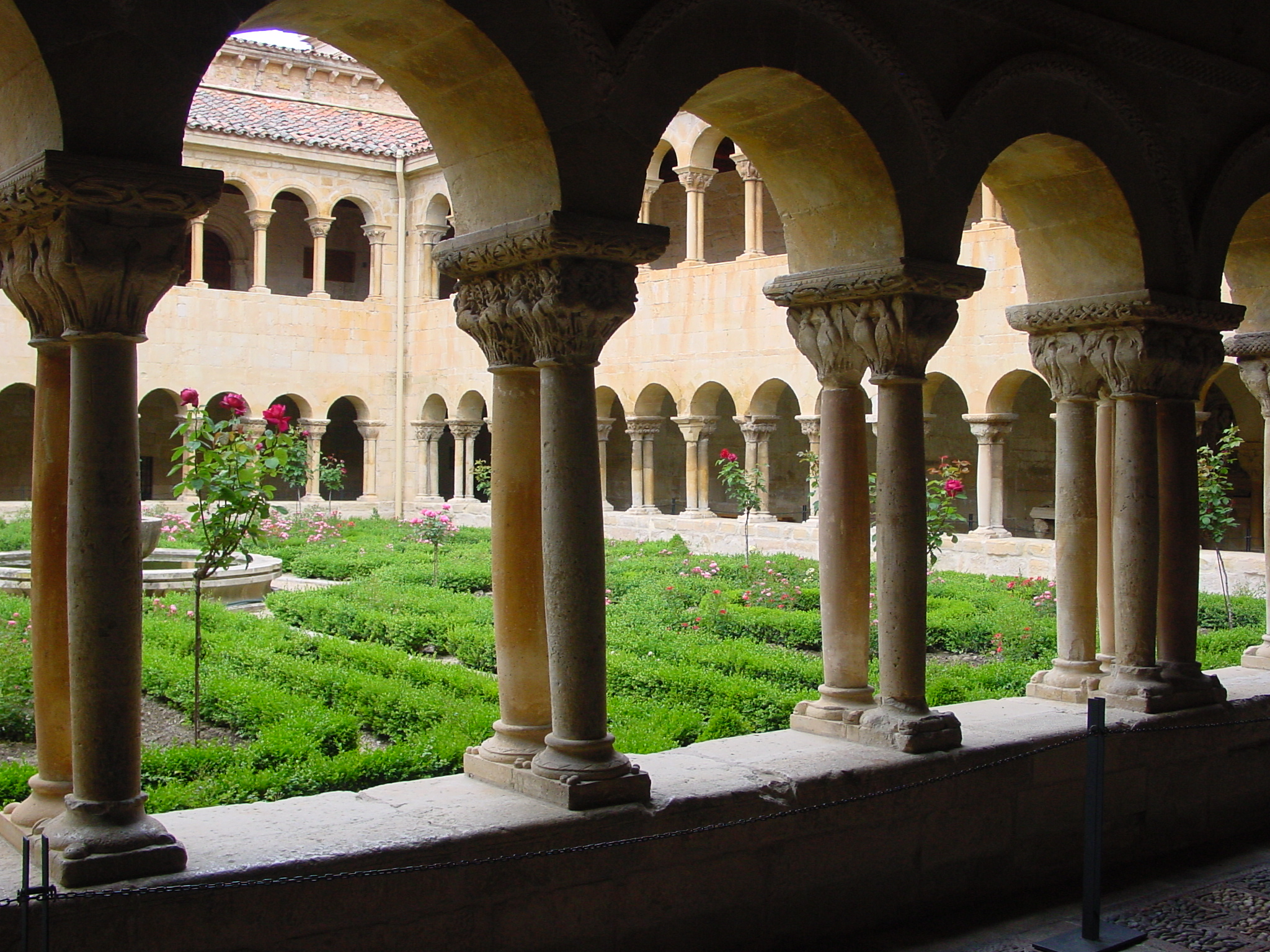 Romanesque cloister of the monastery of Santo Domingo de Silos in Burgos, Spain.